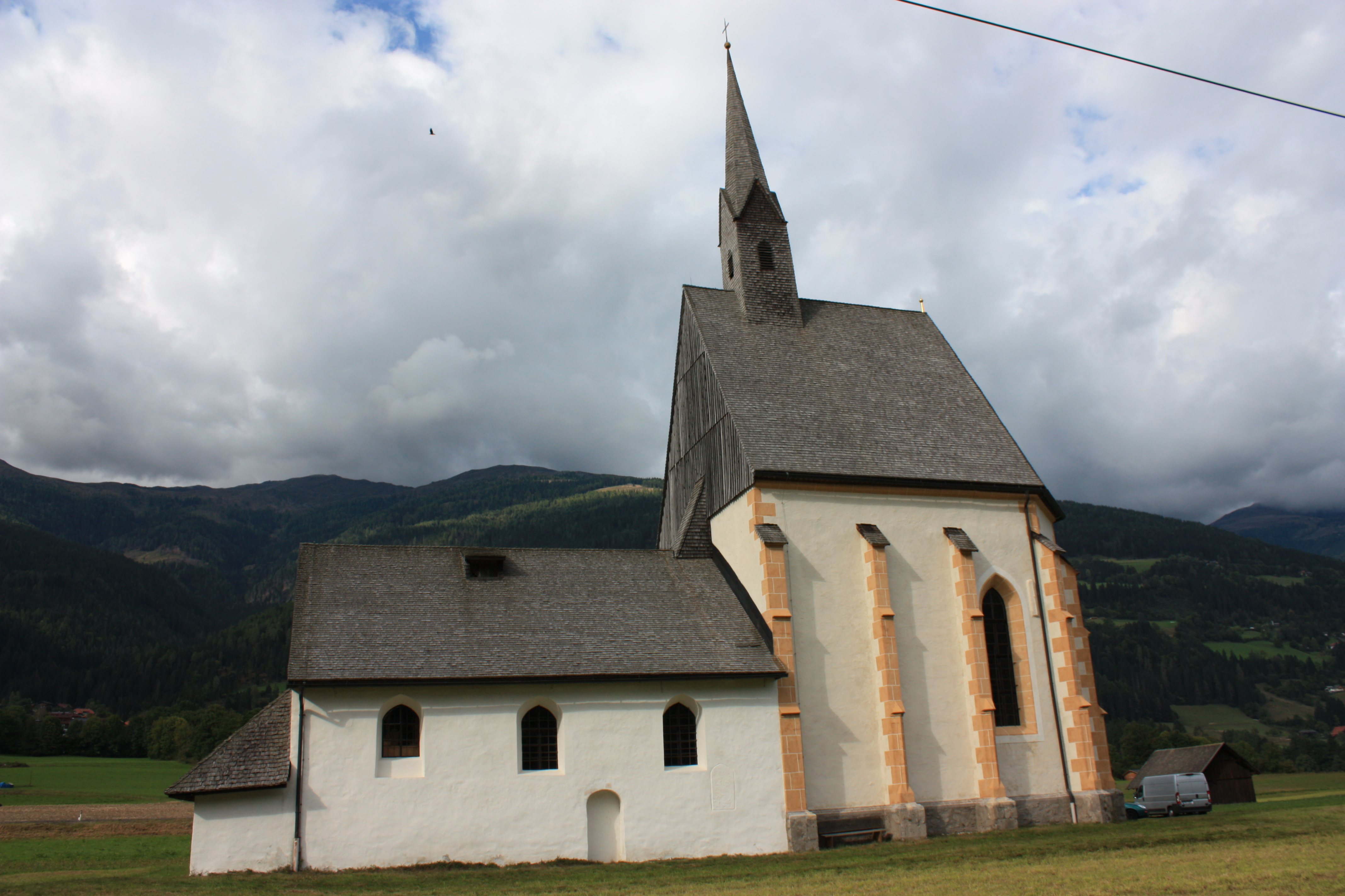 Subsidiary church Saint Athanasius Locality: Berg im Drautal Community:Berg im Drautal